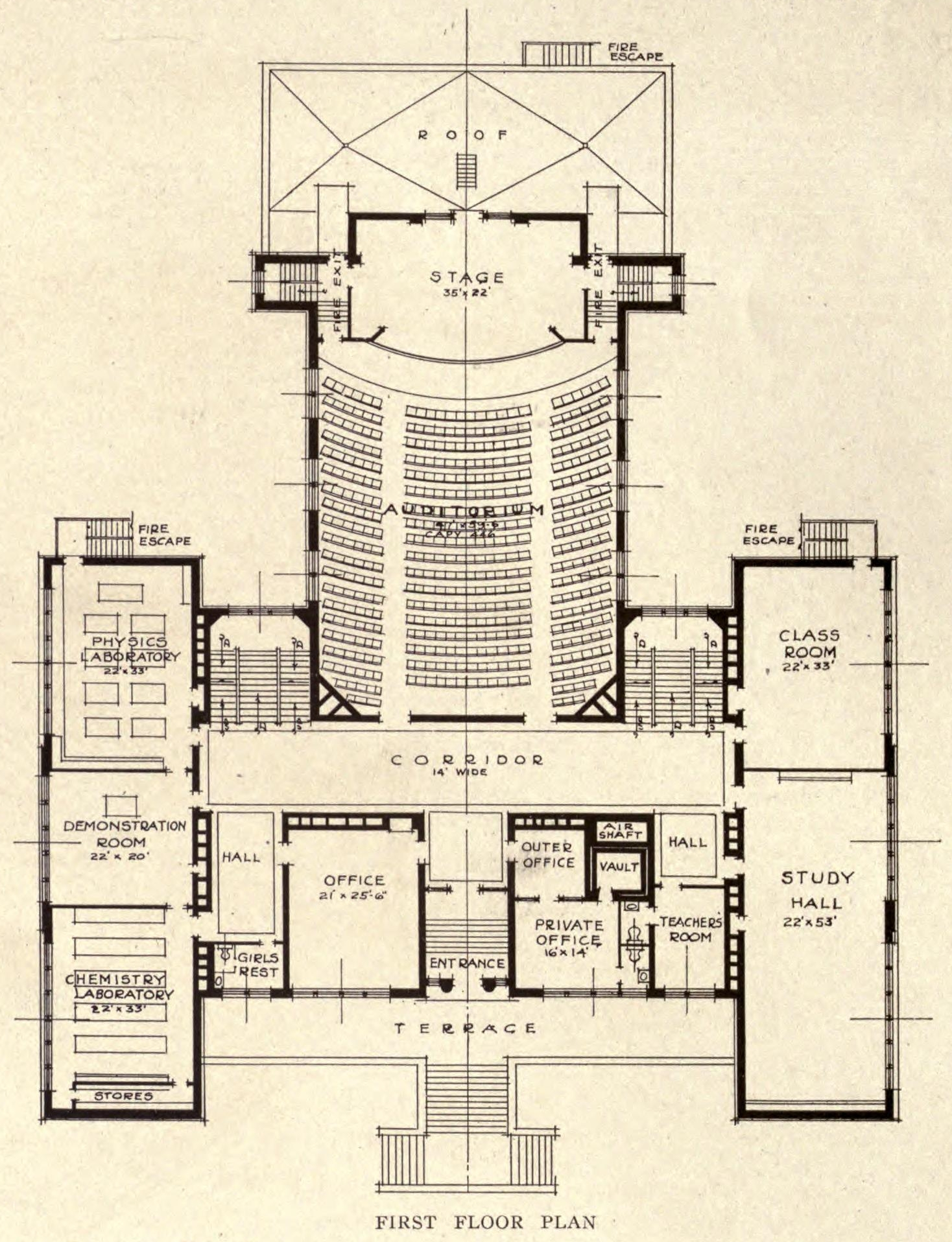 Plan of the first floor of the Durango High School in Durango, Colorado. Listed on the National Register of Historic Places, it is now the district administration building.